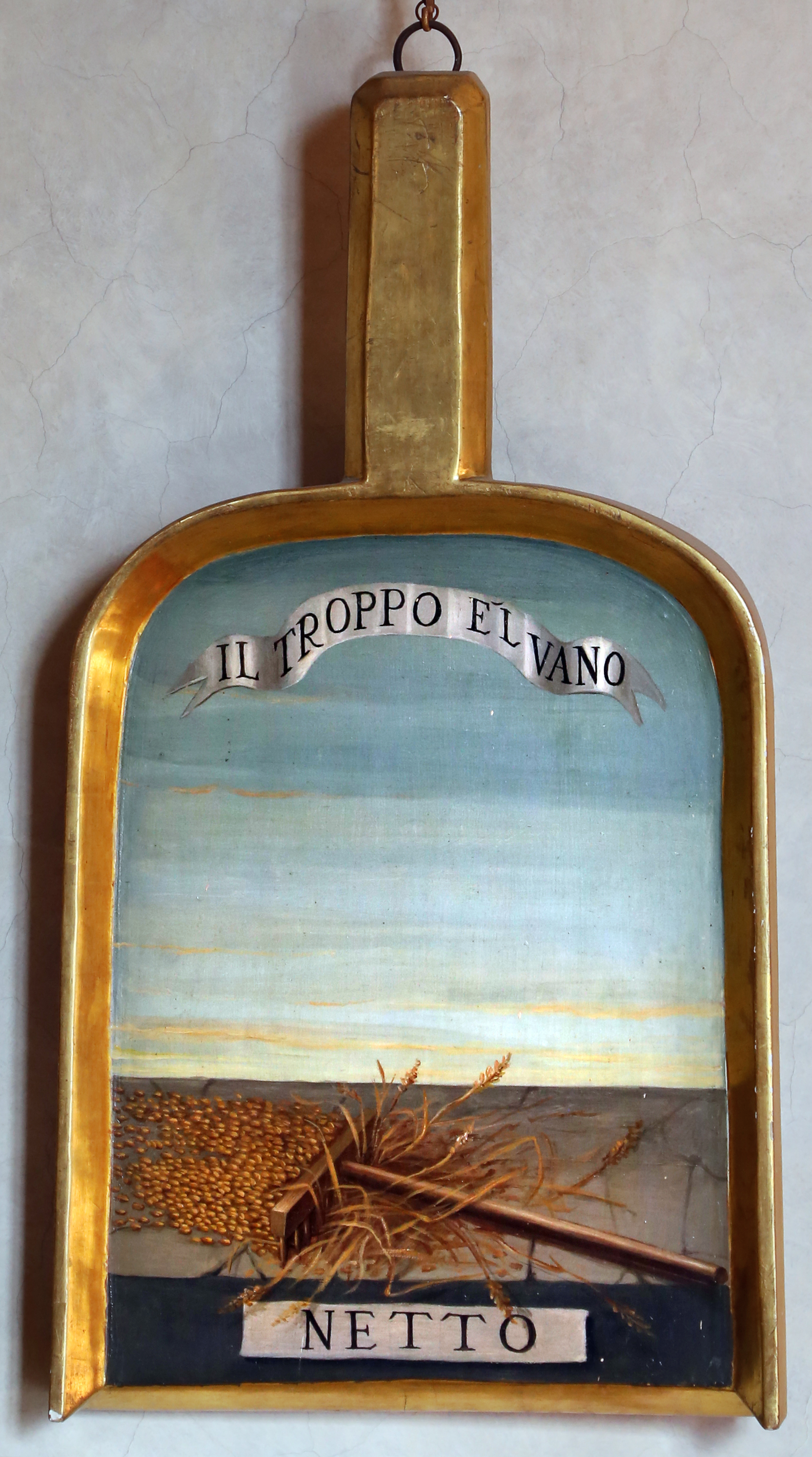 Shovels of Accademici della Crusca